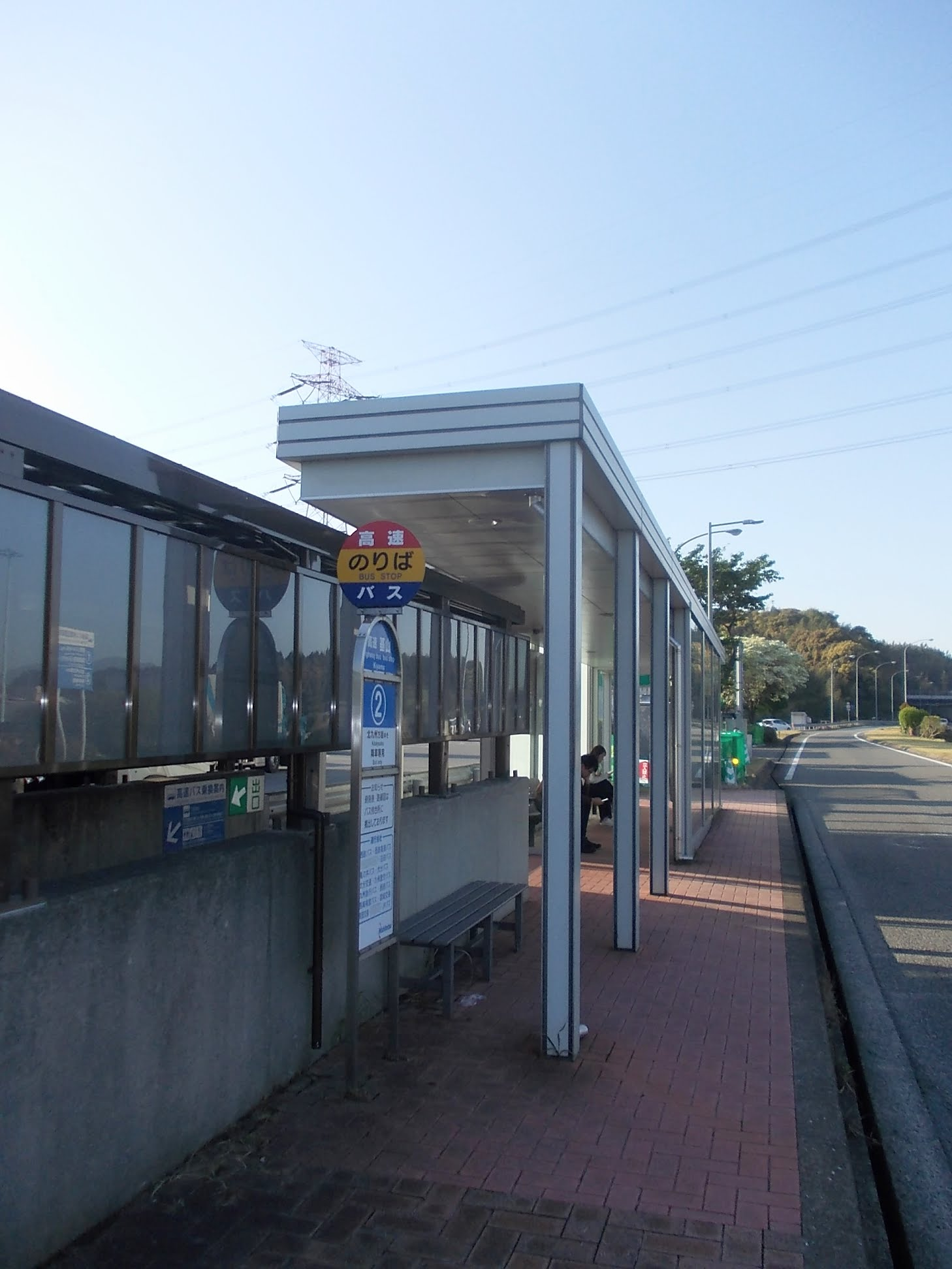 Kiyama Bus Stop on the Kyushu Expressway northbound line